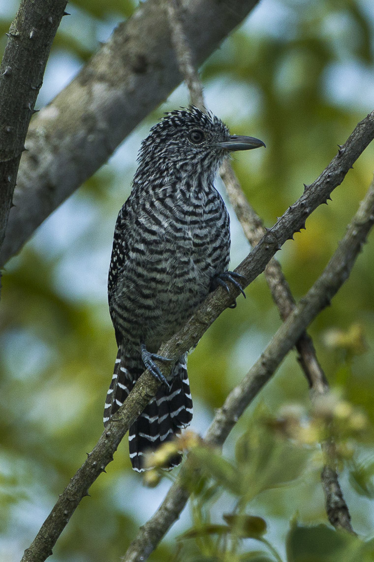 Bar-crested Antshrike - Colombia_S4E9188